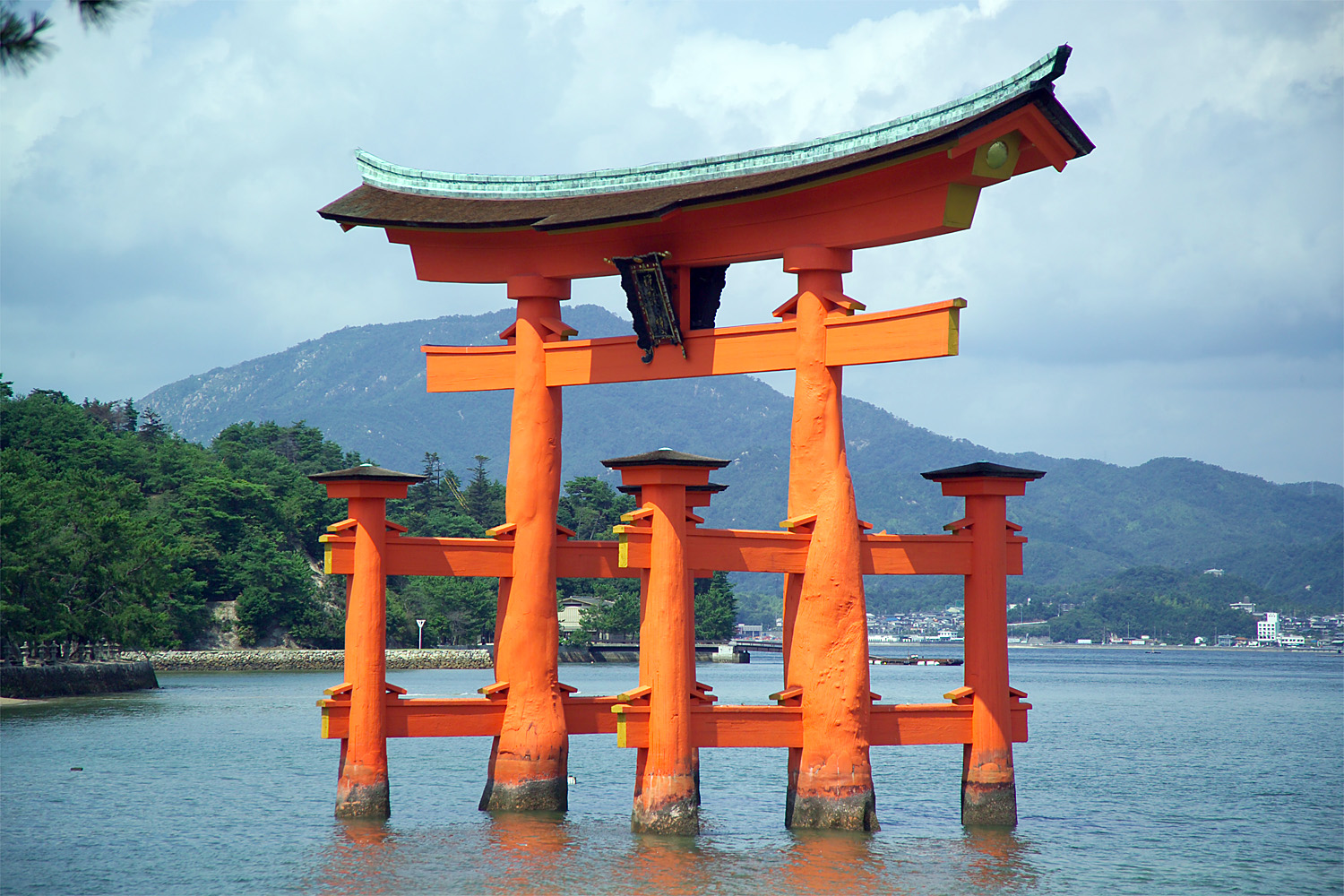 Torii at Itsukushima Shrine, Miyajima, Hiroshima Prefecture, Japan. I took the photo.